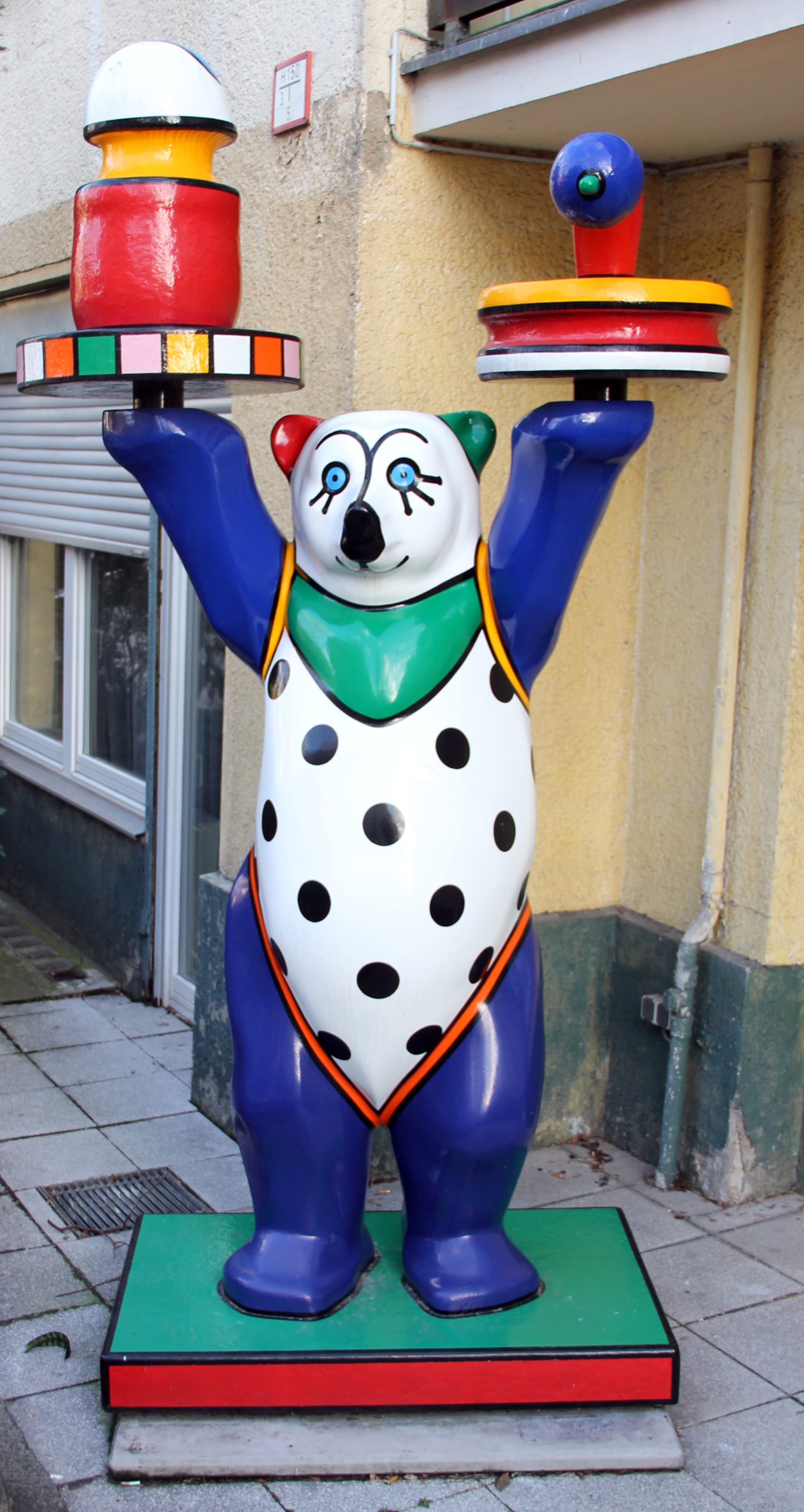 Sculpture, Hansablickbär, Flotowstraße 6, Berlin-Hansaviertel, Germany